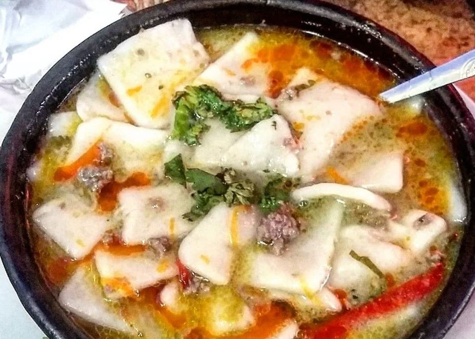 Chilean tipical lunch